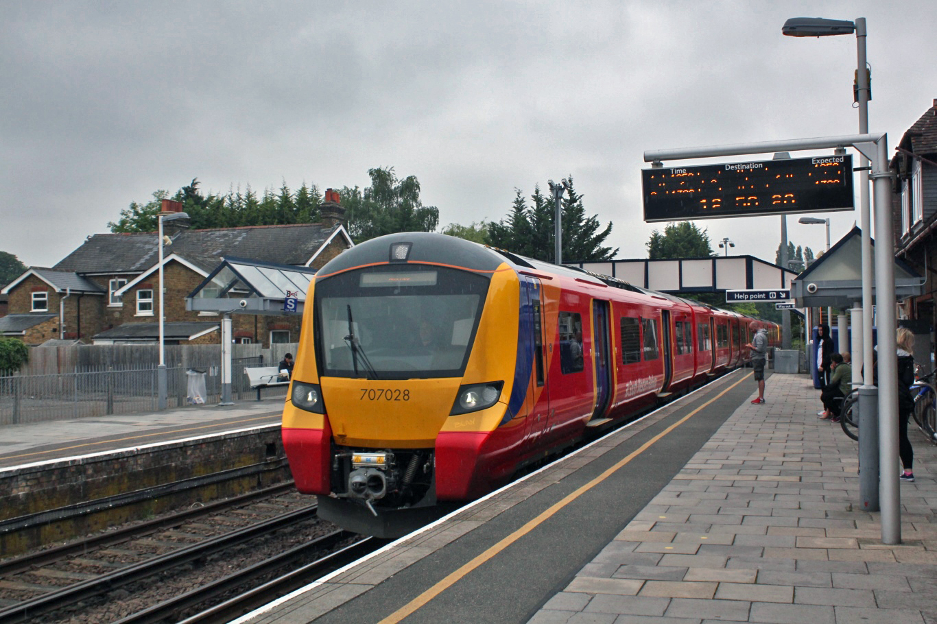 New electric units 707028 and 707009 glide into Datchet with a Windsor & Eton Riverside to London Waterloo service.